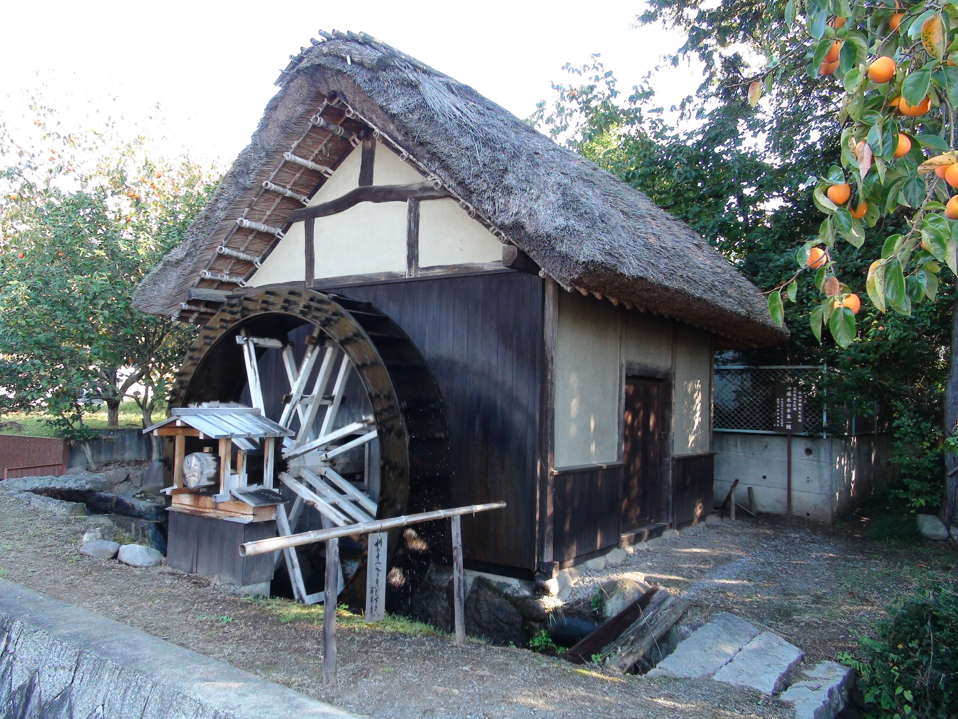 Nishi Fujiki watermill. Tangible Folk Cultural Property of Yamanashi Prefecture Koshu.